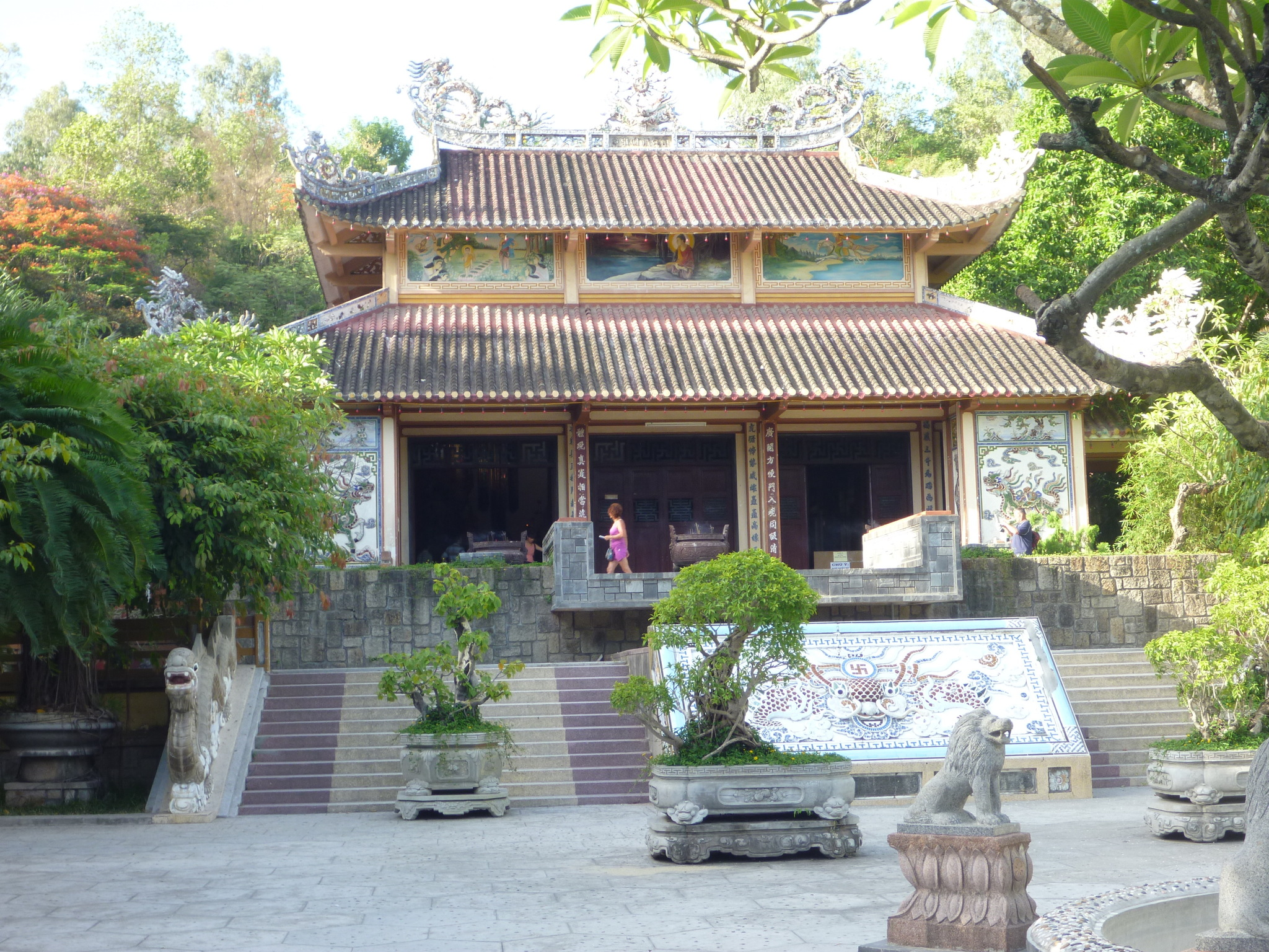 Long-Sơn-Pagoda the actual pemple as object. Vietnam, Nha Trang